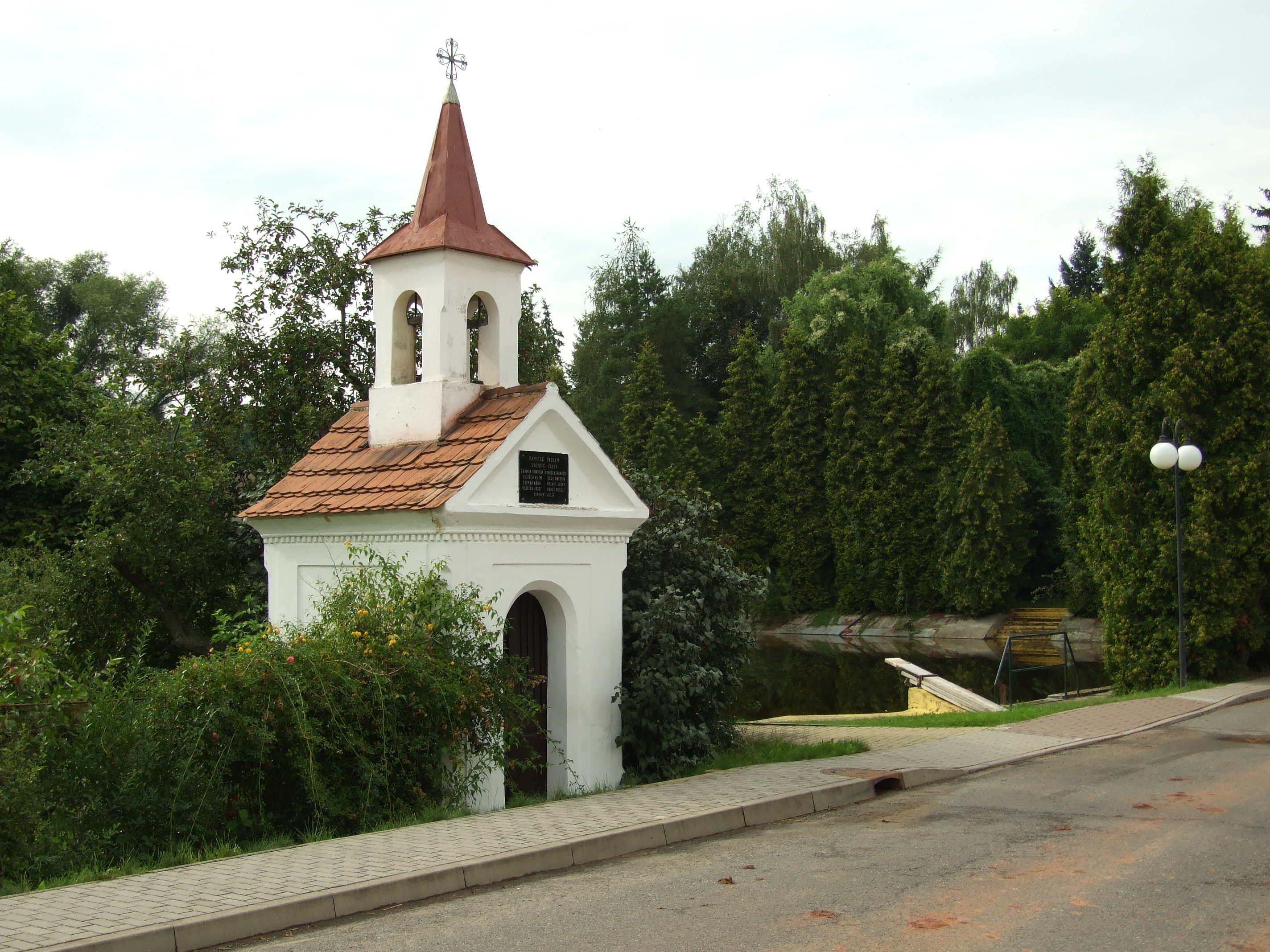 A chapel in the town of Zichovec, Central Bohemian Region, CZ